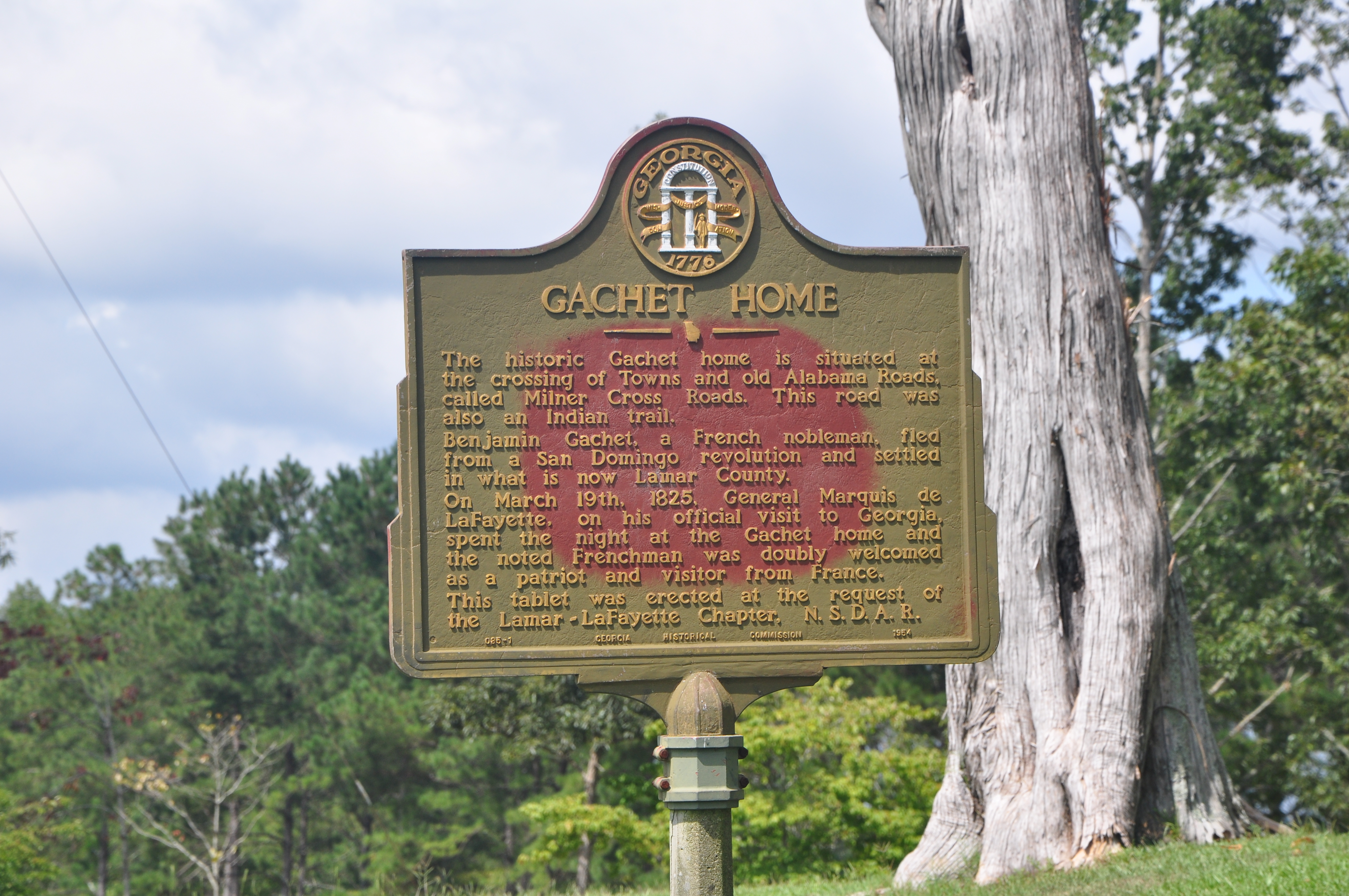 Benjamin Gachet House, GA 18, 3 mi. W of Barnesville Barnesville